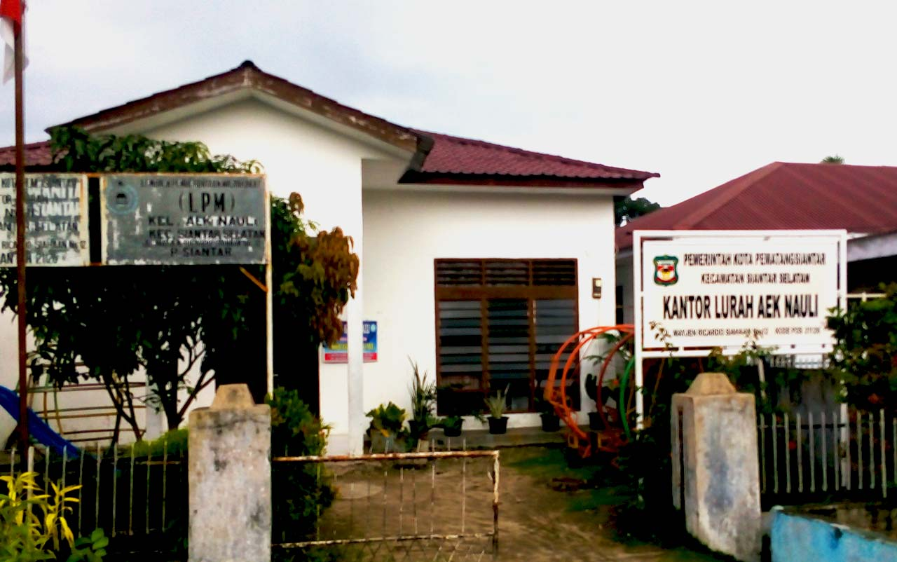 Office of Aek Nauli, Siantar Selatan, Pematangsiantar